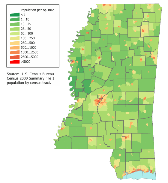 Mississippi state population density map based on Census 2000 data. See the data lineage for the process description.